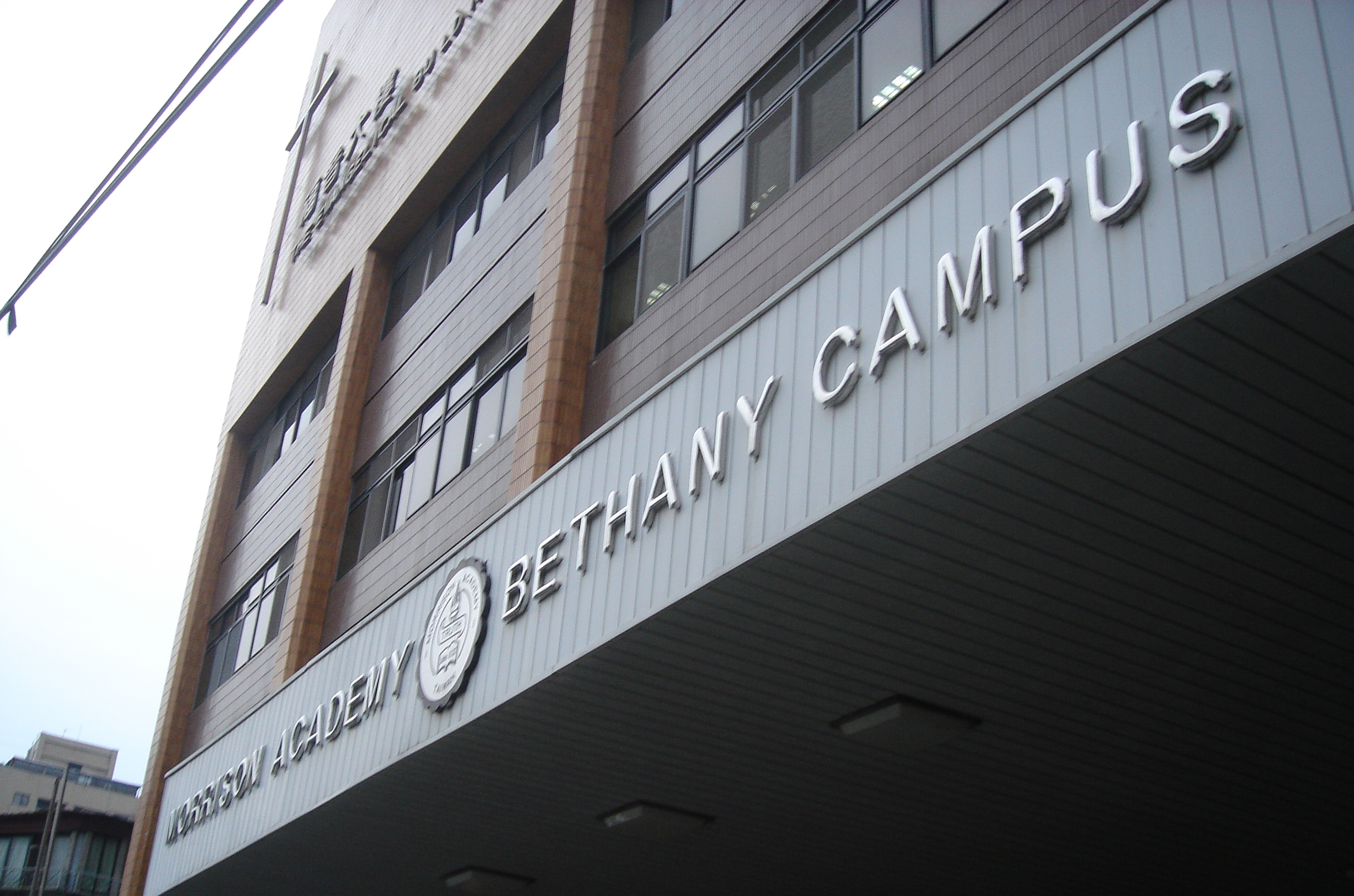 The Evangelical Building, Morrison Academy Bethany Campus.